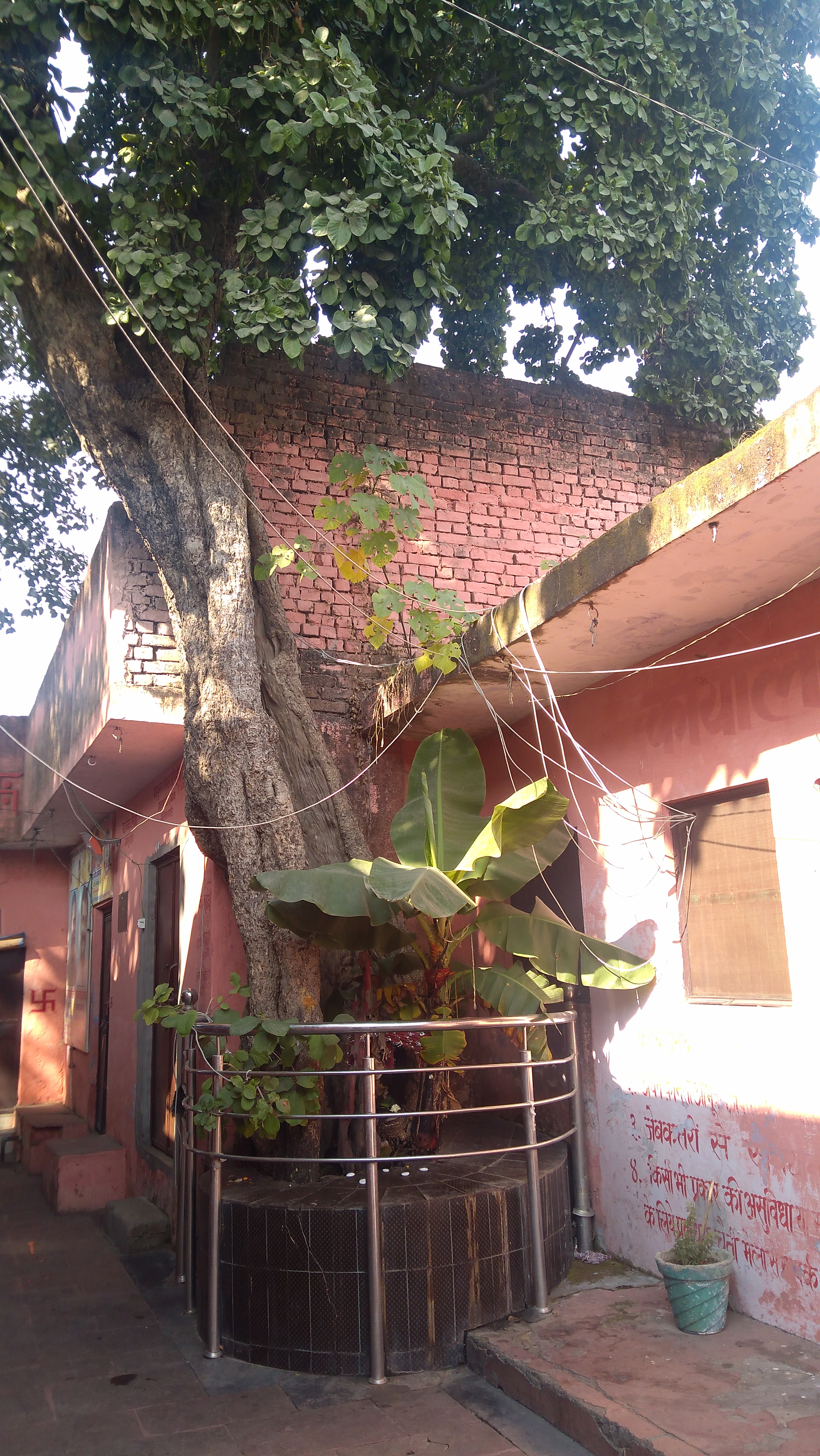 Mata Bala Sundari temple, Kashipur, Uttarakhand